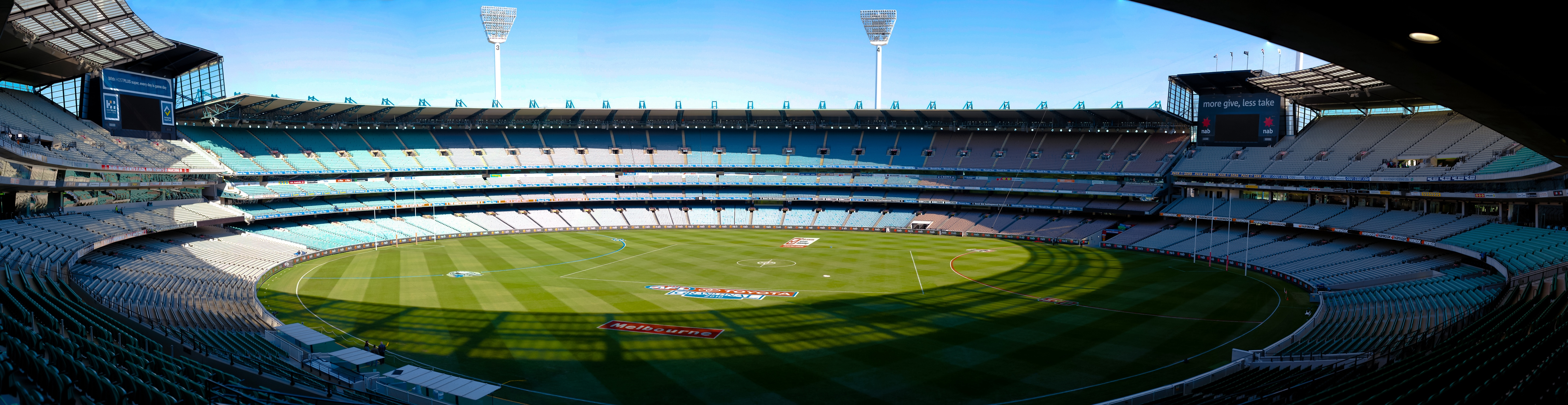 A panoramic view of Melbourne Cricket Ground